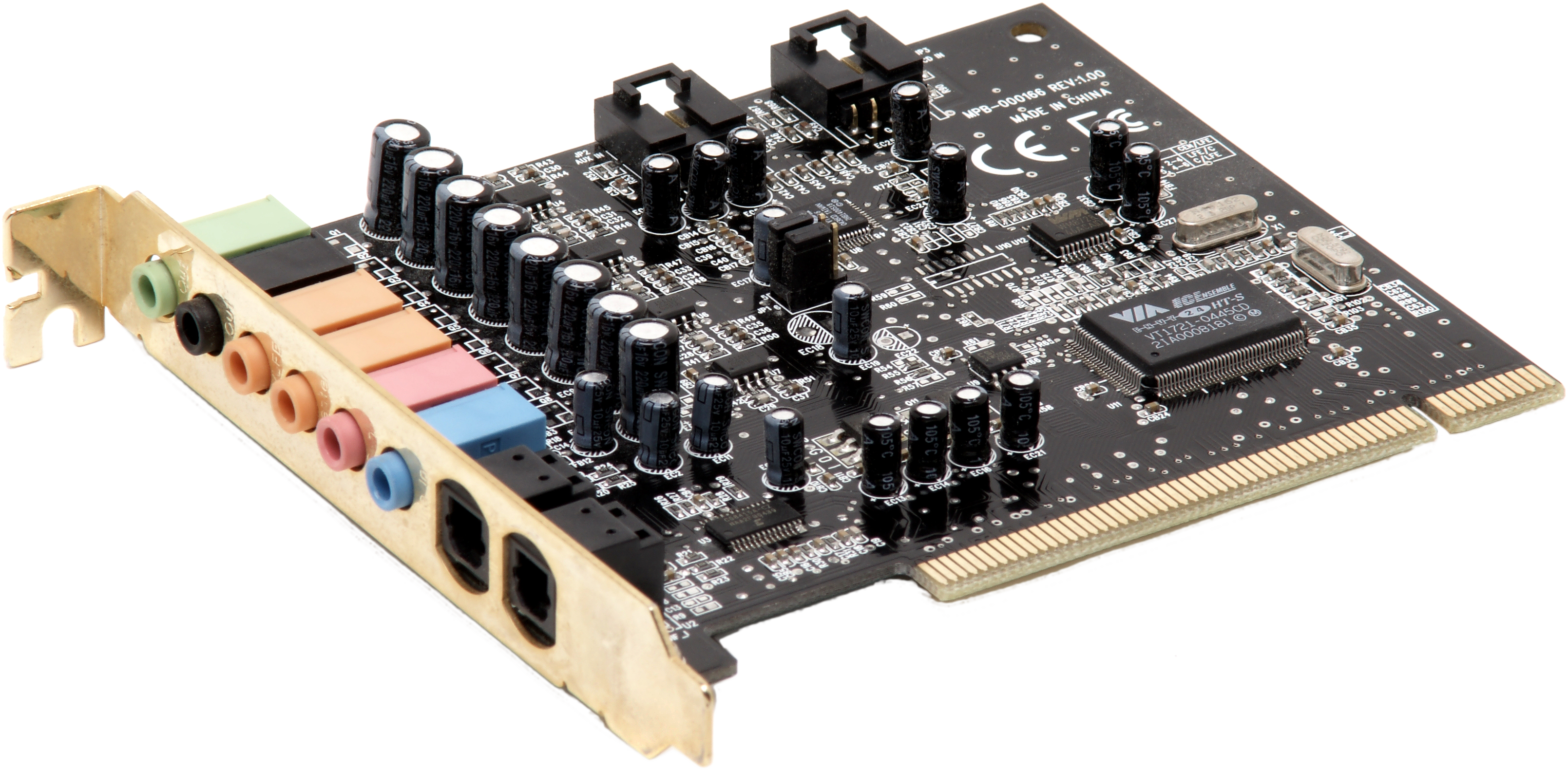 A Turtle Beach brand sound card for a PC. This specific model is the Catalina.